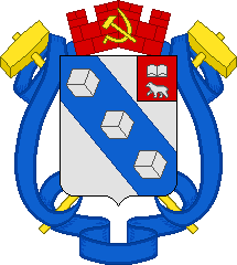 Berezniki (Perm krai), coat of arms (1981)